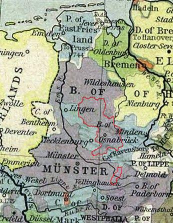 Map of Bishopric Münster in 1786